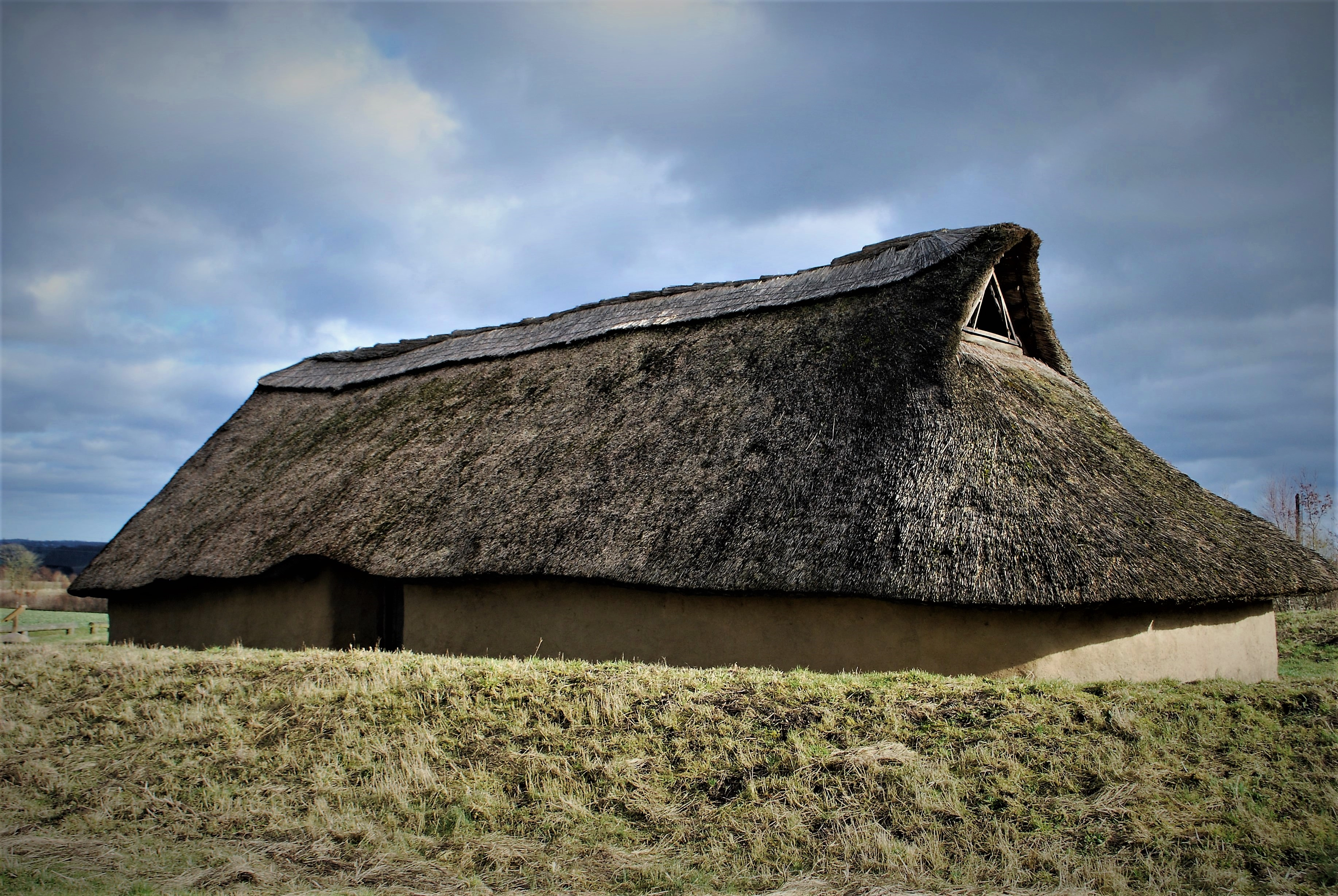 Copy of a stone age house near Borum Eshøj, Jylland, Denmark